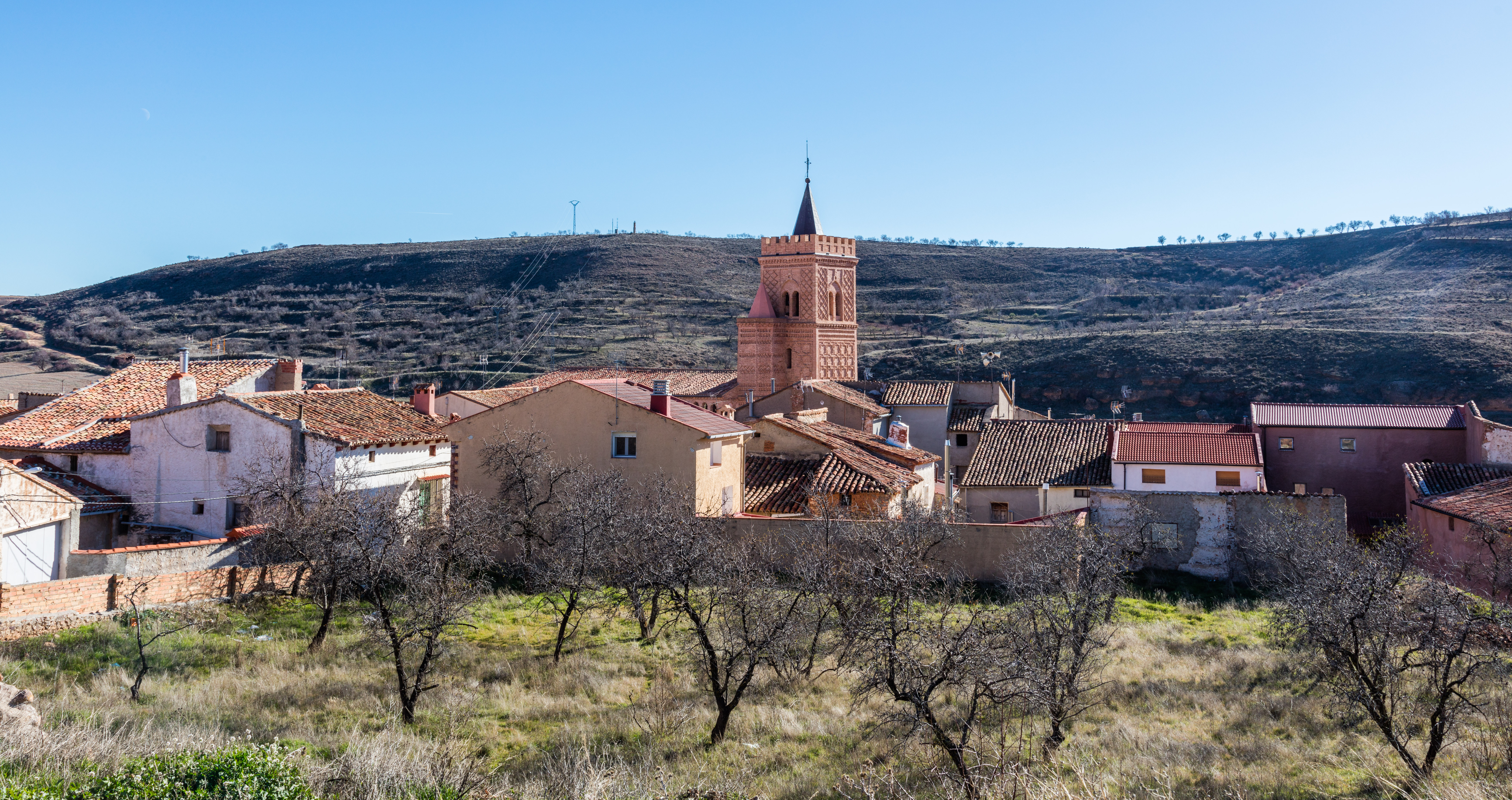 Villar de los Navarros, Zaragoza, Spain